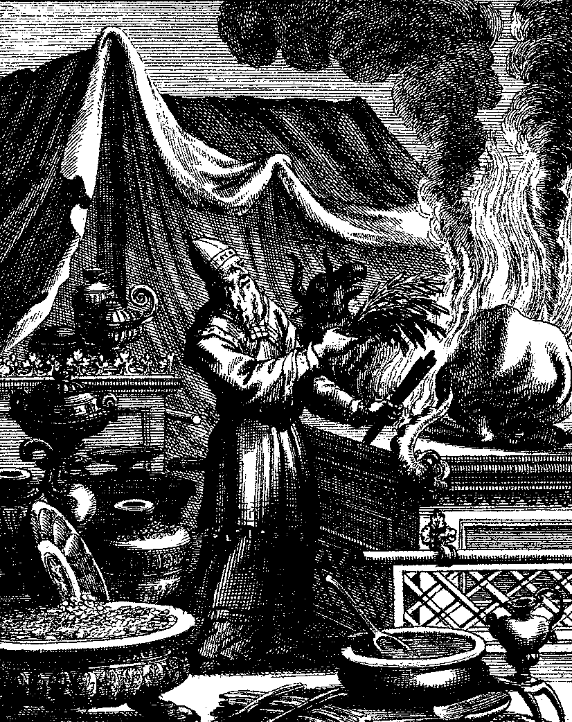 Priestly duties, as in Numbers 19:6, woodcut by Johann Christoph Weigel from "Biblia ectypa : Bildnussen auss Heiliger Schrifft Alt und Neuen Testaments"; image courtesy Bizzell Bible Collection, University of Oklahoma Libraries